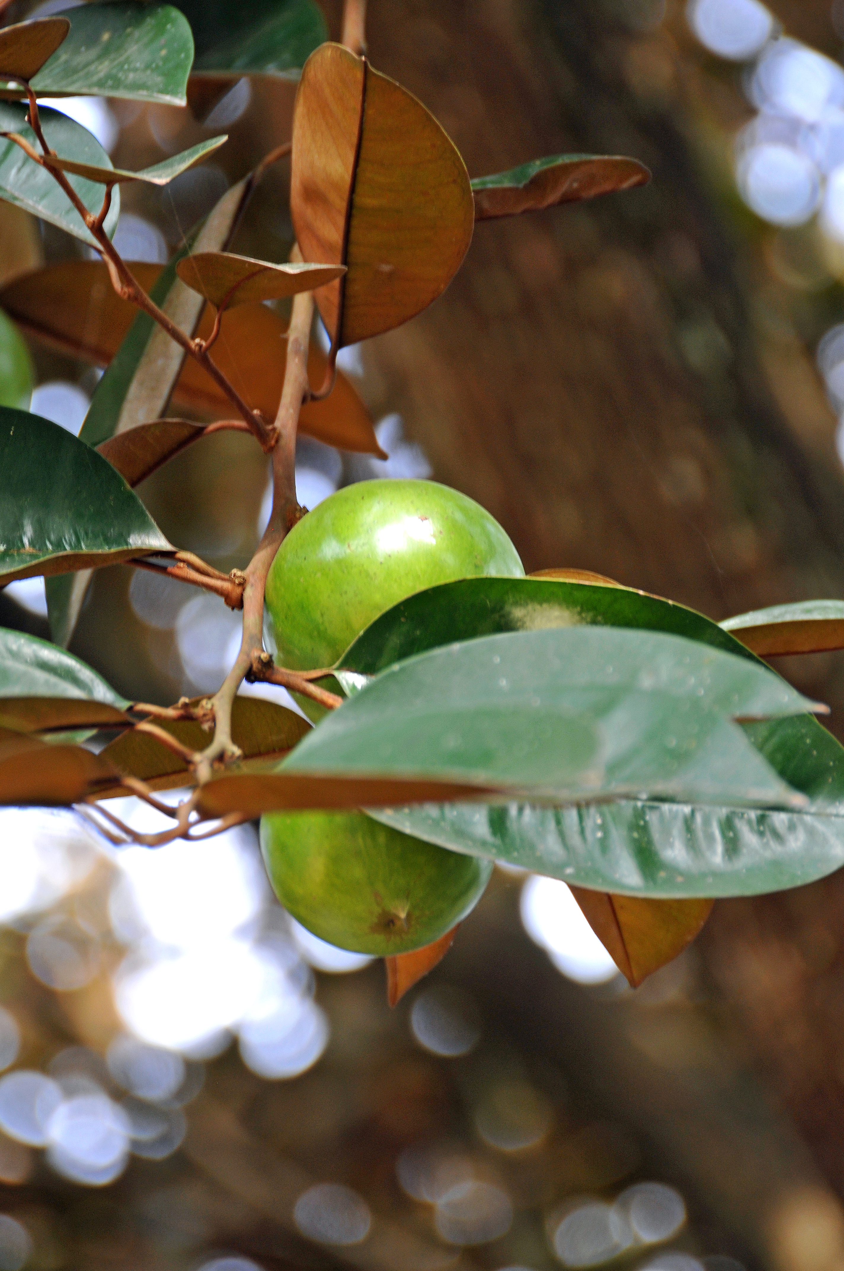 PLEASE, no multi invitations in your comments. Thanks. This apple looking fruit is called "Milk Fruit". Milk Fruit is a popular tropical fruit indigenous to Cambodia and Vietnam. Their fragrantly sweet white flesh to taste and milky white juices are what gives them their name. Vietnam, Cu Chi Tunnels, Ho Chi Minh City.